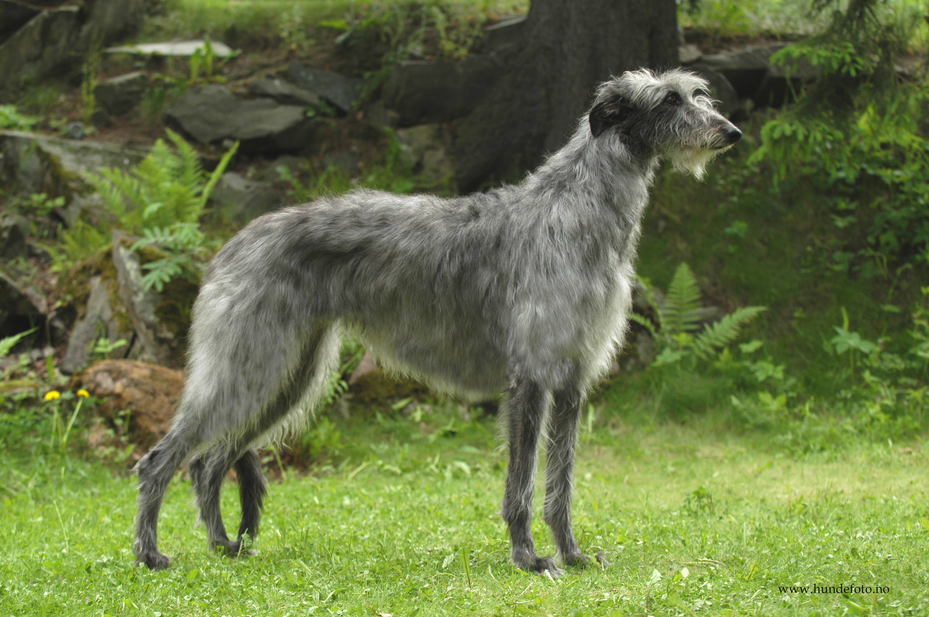 NV-01/02/03. NordV-02.SV-02, KbhV-01 Jaraluv Karaoke (Karrie)